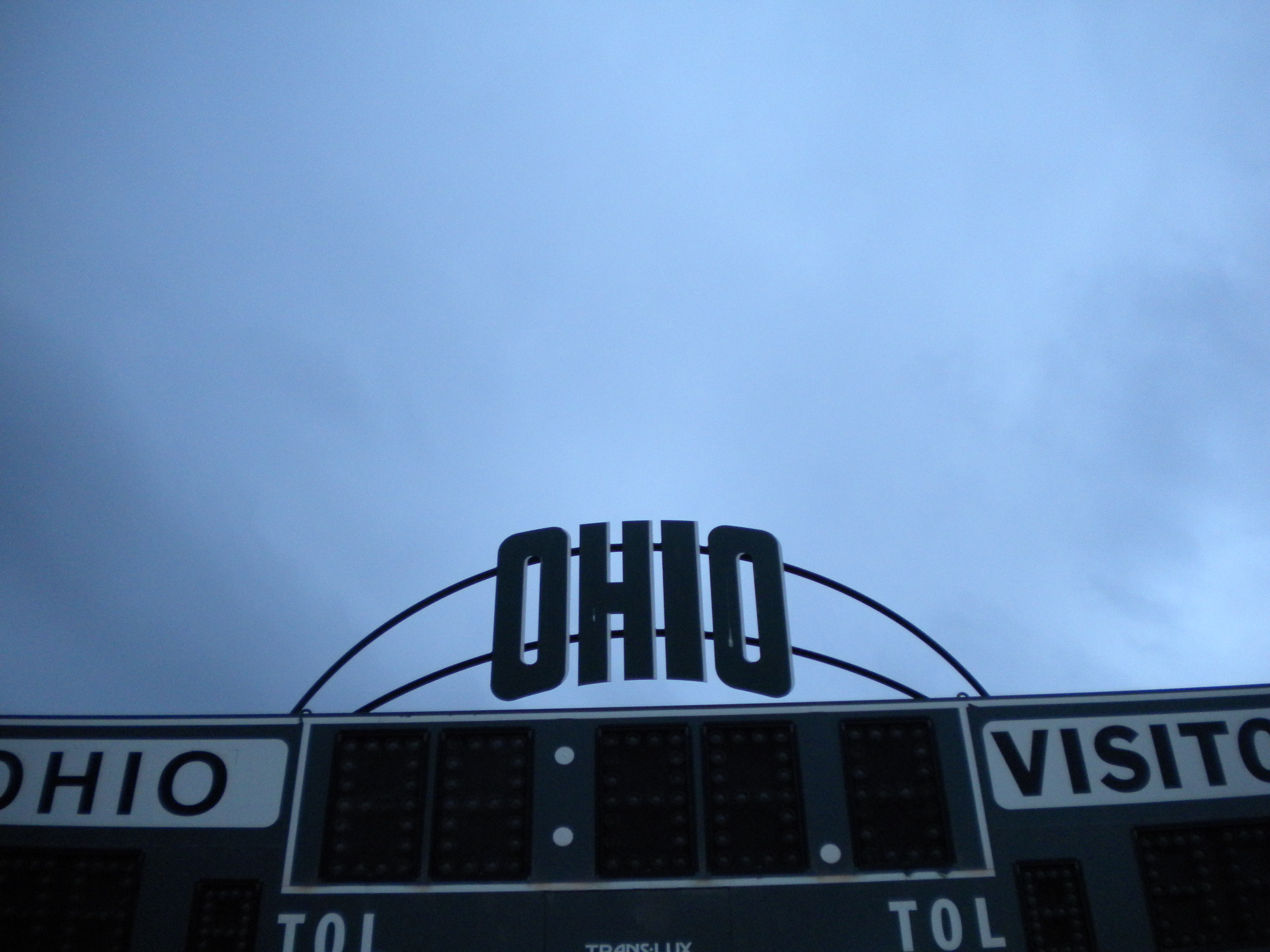 The scoreboard at Goldsberry Track and Pruitt Field